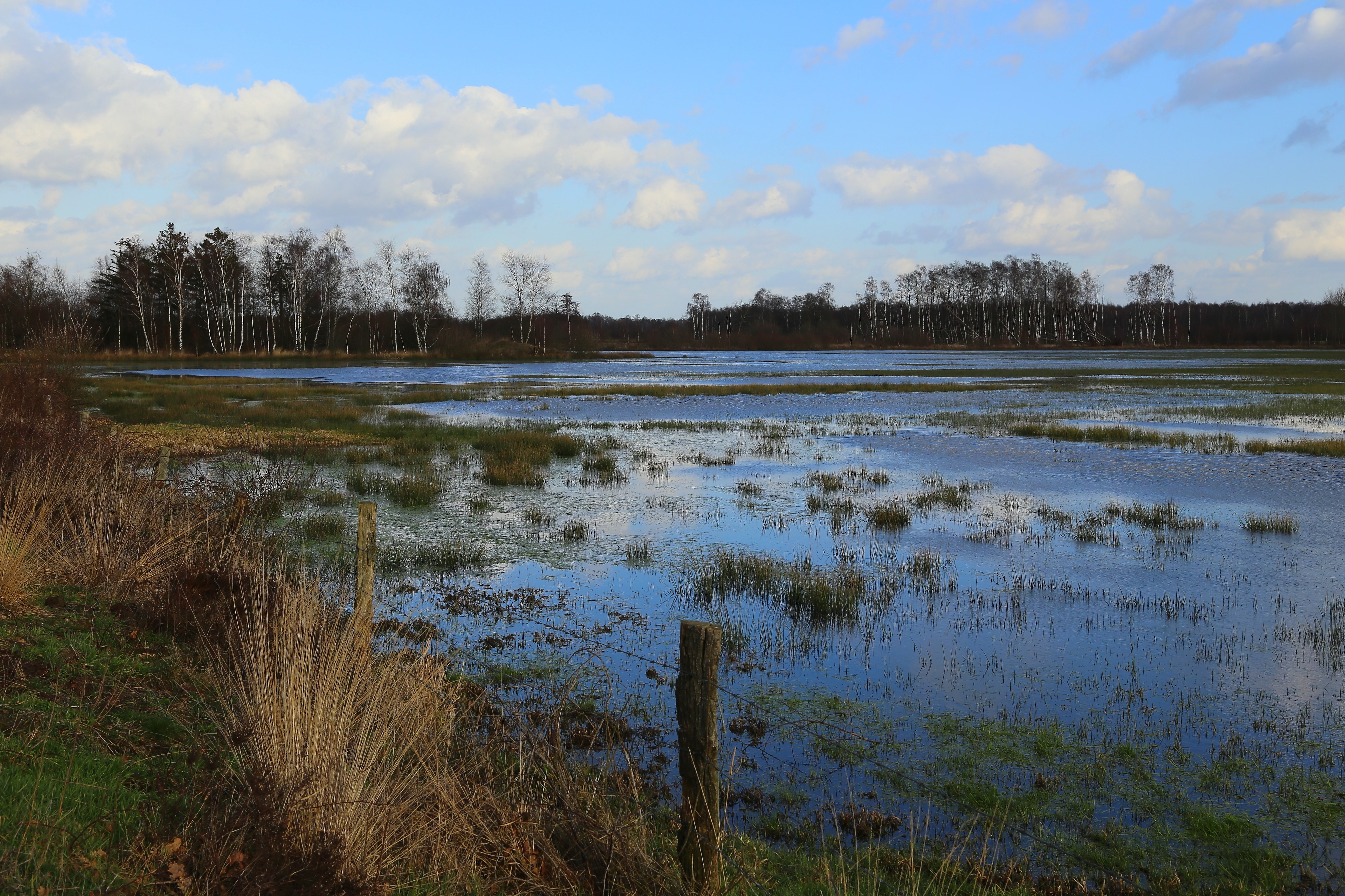 Meadows in the nature reserve (Naturschutzgebiet) „Recker Moor“ in Recke, Kreis Steinfurt, North Rhine-Westphalia, Germany.